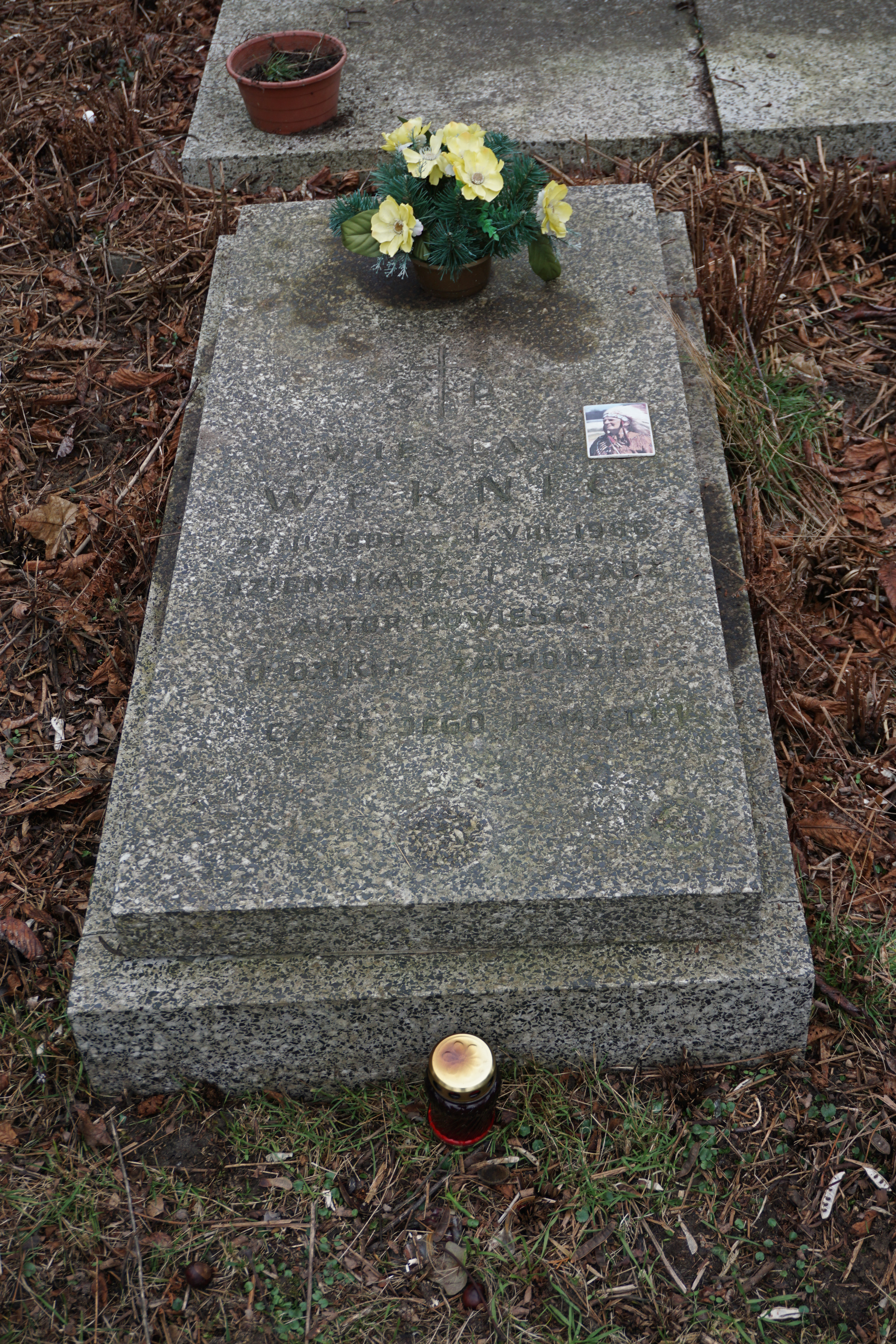 The grave of Wiesław Wernica at the Evangelical-Augsburg Cemetery in Warsaw (avenue 8, grave 27)